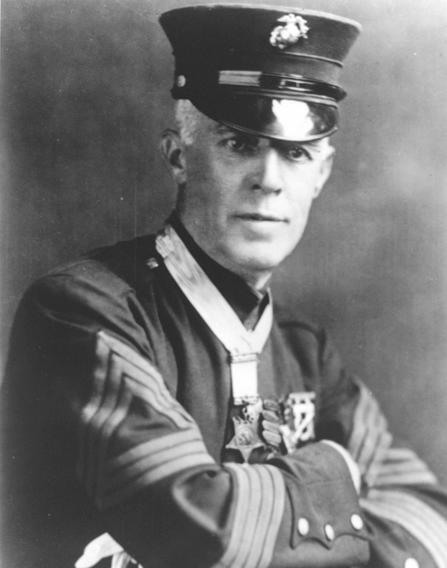 Henry Lewis Hulbert, USMC, highly decorated for his actions in the Philippine-American War (Medal of Honor) and World War I (Navy Cross, Distinguished Service Cross, Croix de Guerre)